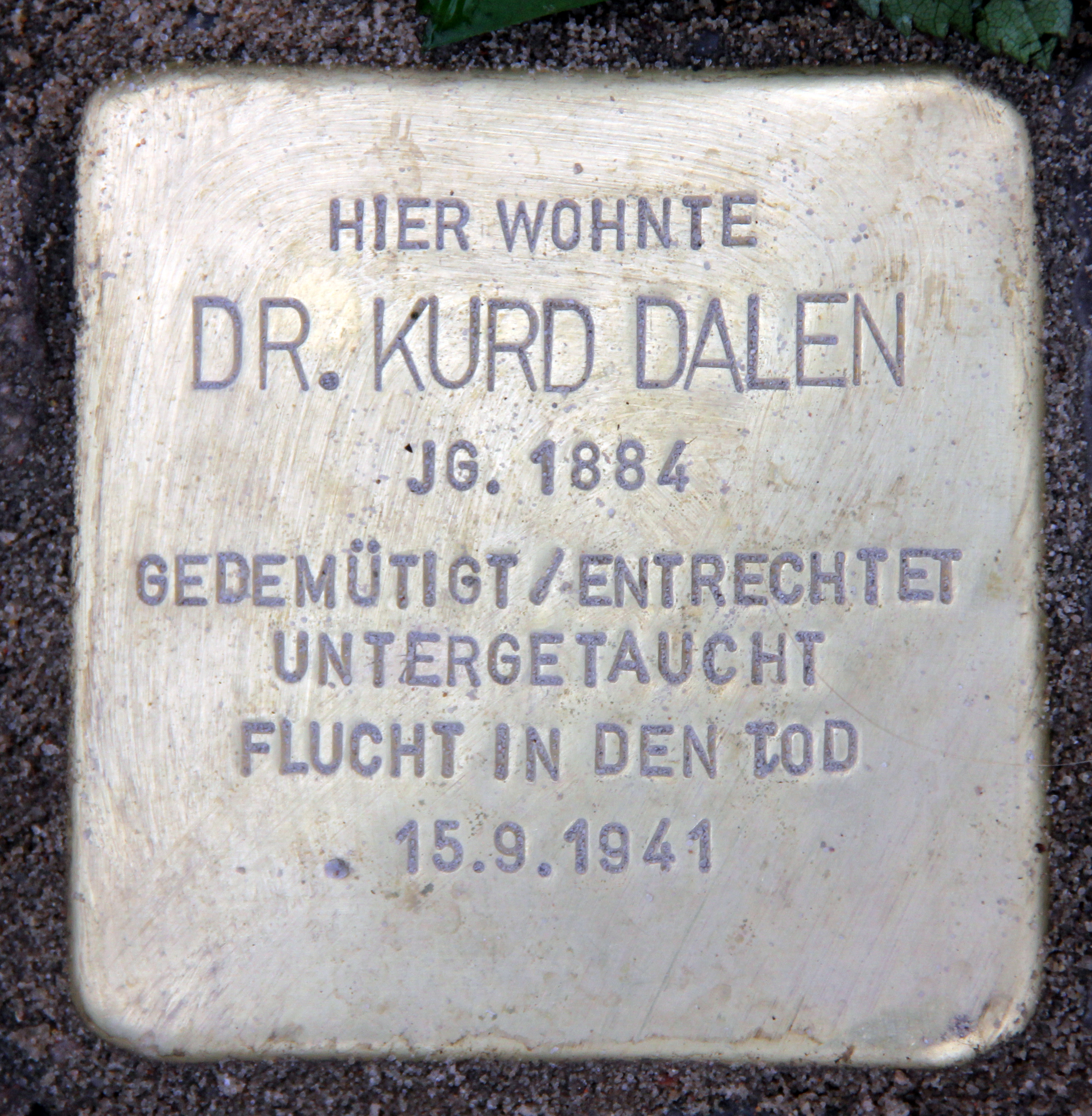 "Stolperstein" (stumbling block), Kurd Dalen, Drakestraße 59, Berlin-Lichterfelde, Germany